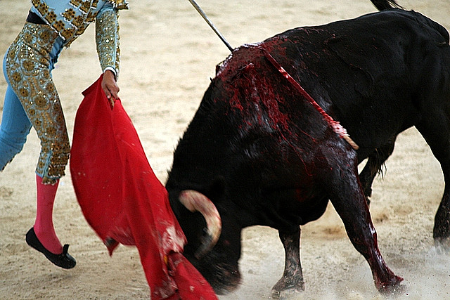 Plaza de Toros Bullfight and Folkloric Show Cancun, Mexico